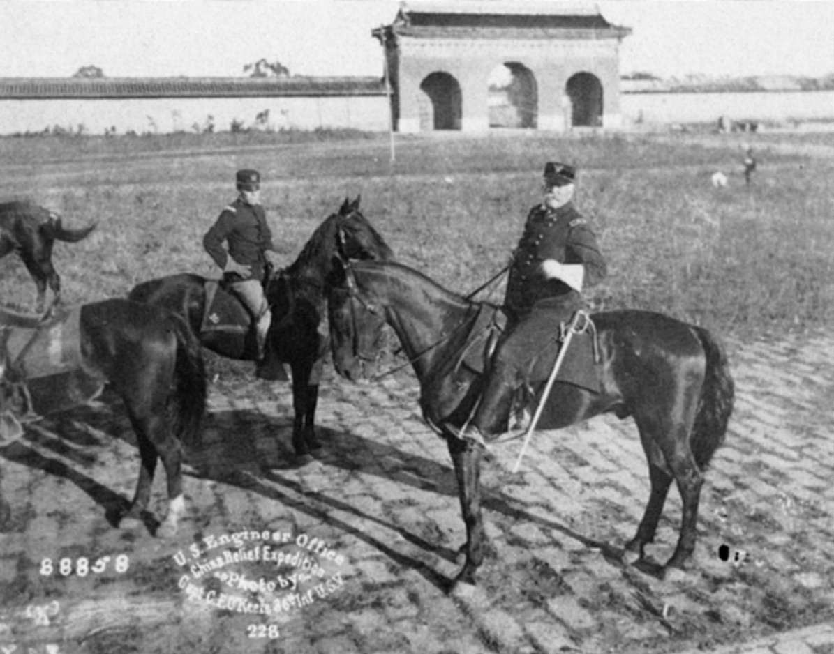 Brig. Gen J. H. Wilson, U.S.V., and Lieutenant Turner, 10th Infantry, Aide de Camp. Temple of Agriculture, Peking. 1900. Capt. C. F. O'Keefe.